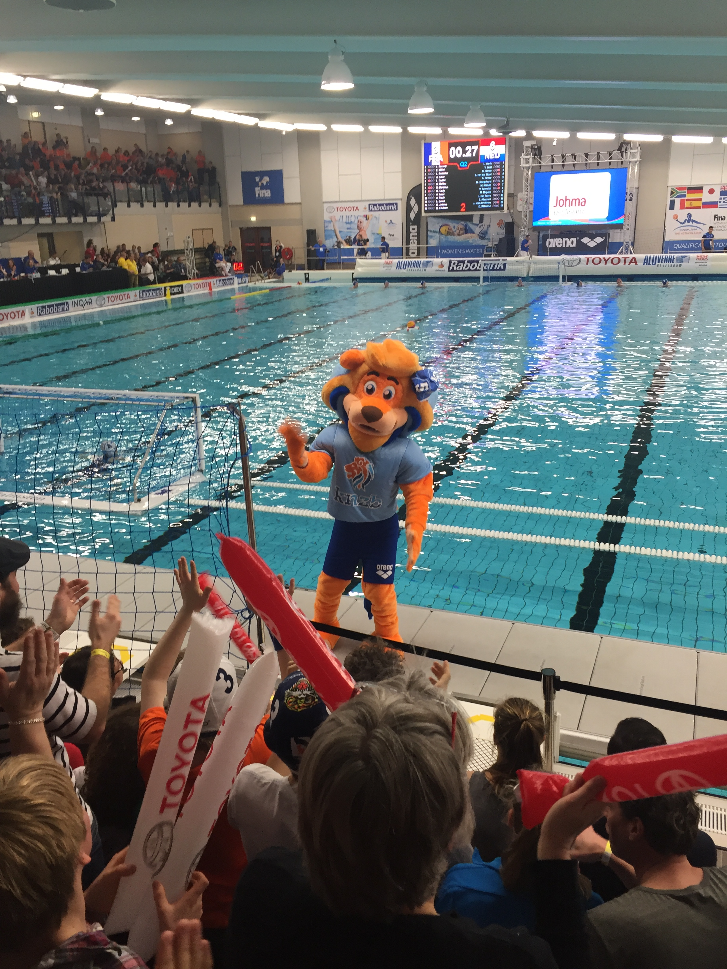 2016 Water Polo Olympic Qialification tournament NED-FRA